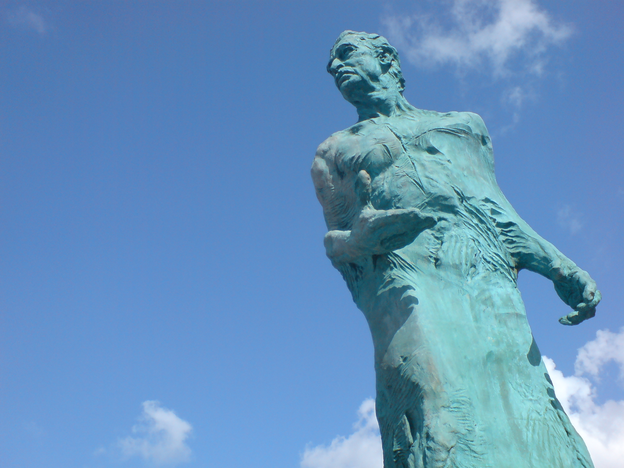 Monument to "Alfredo Kraus". Las Canteras Beach. Las Palmas de Gran Canaria. Canary Islands.